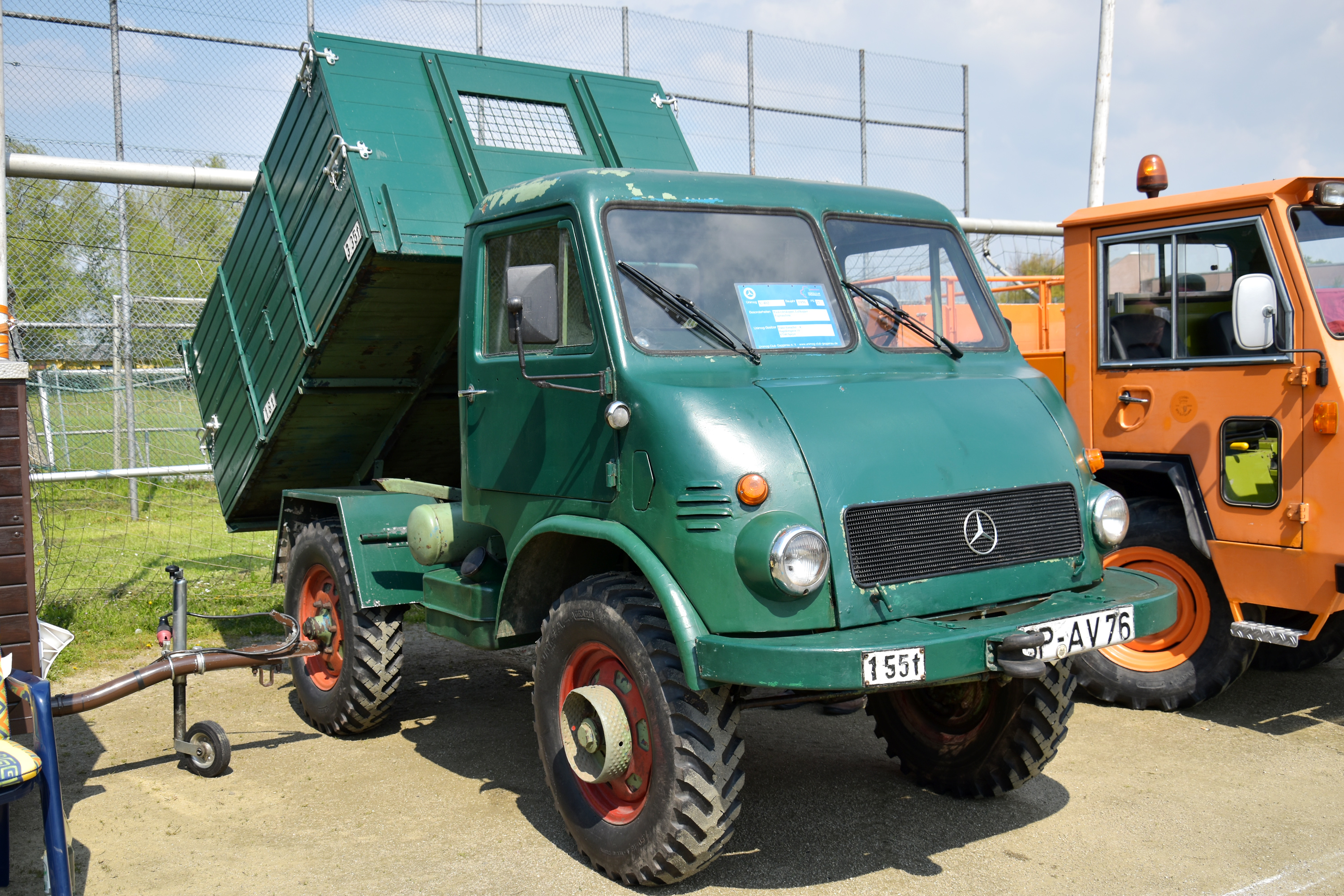 Unimog 402, Baujahr 1956, 25 PS